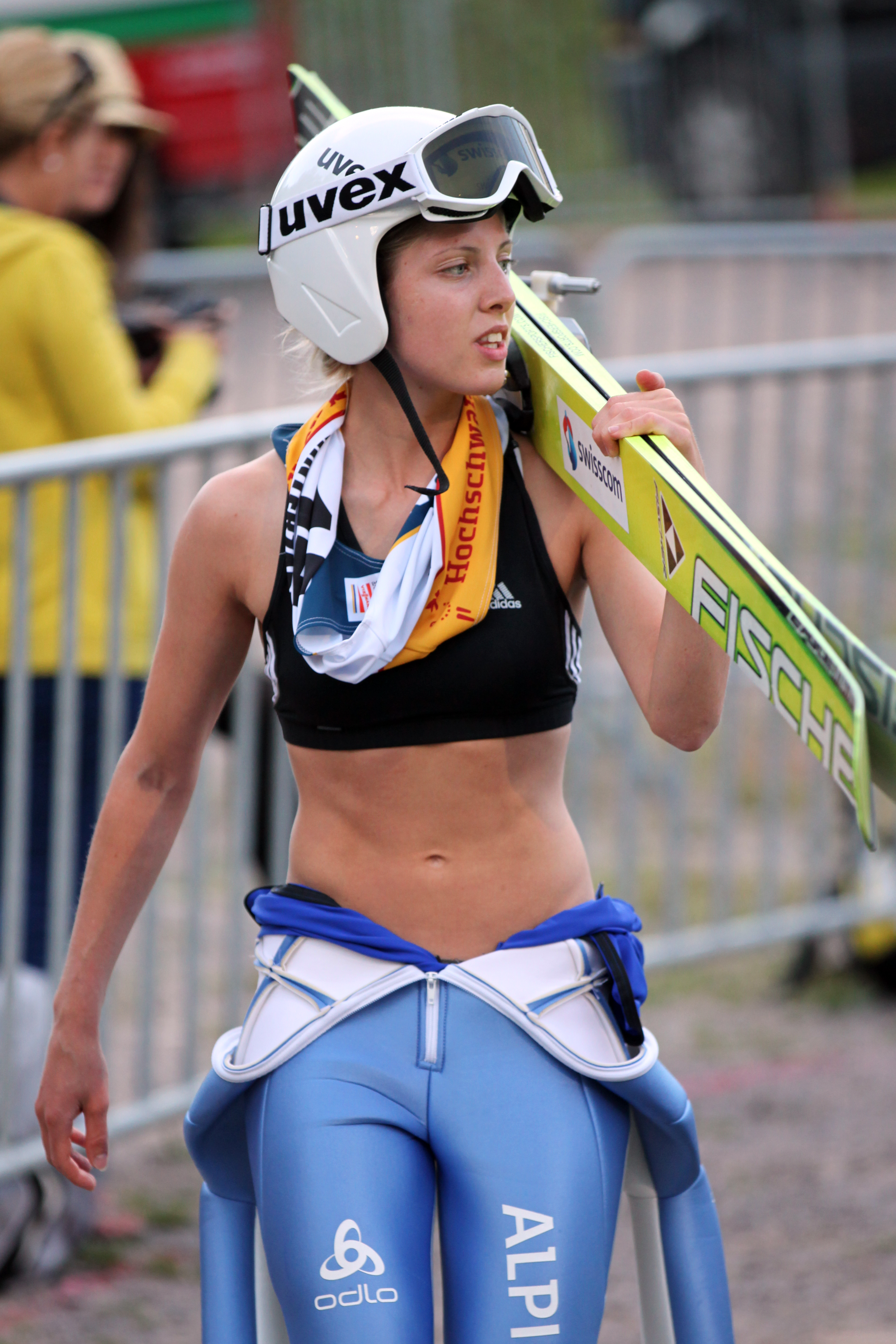 Bigna WINDMÜLLER (WINDMUELLER) at the Summer Grand Prix Ski Jumping in Hinterzarten.